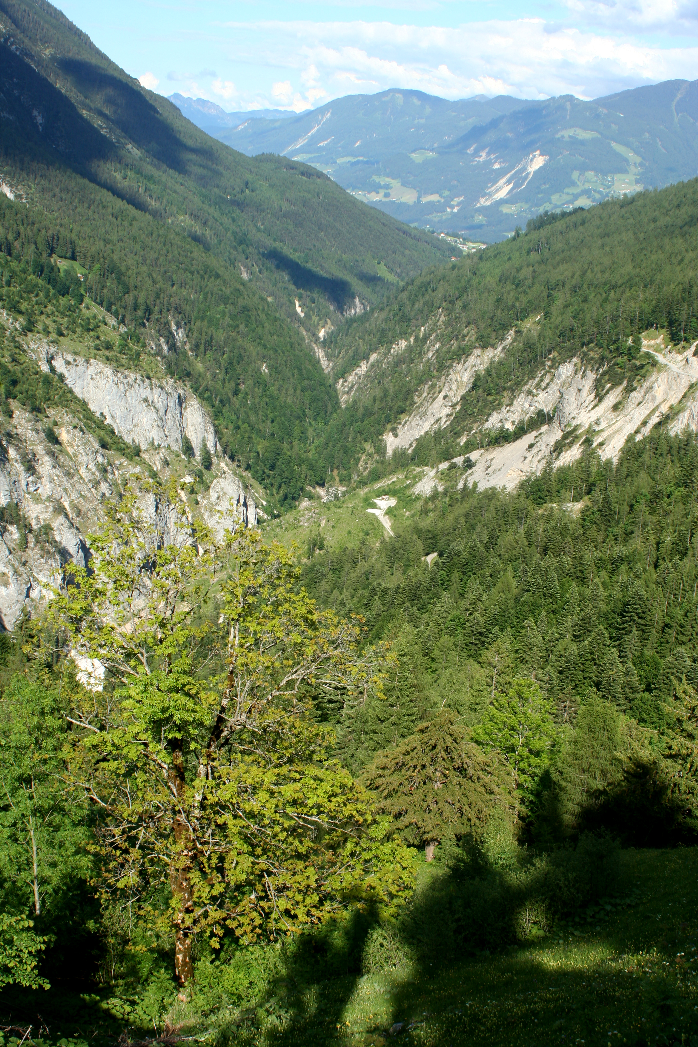 View from the Ganalm trough the Vomper Loch to the Inntal